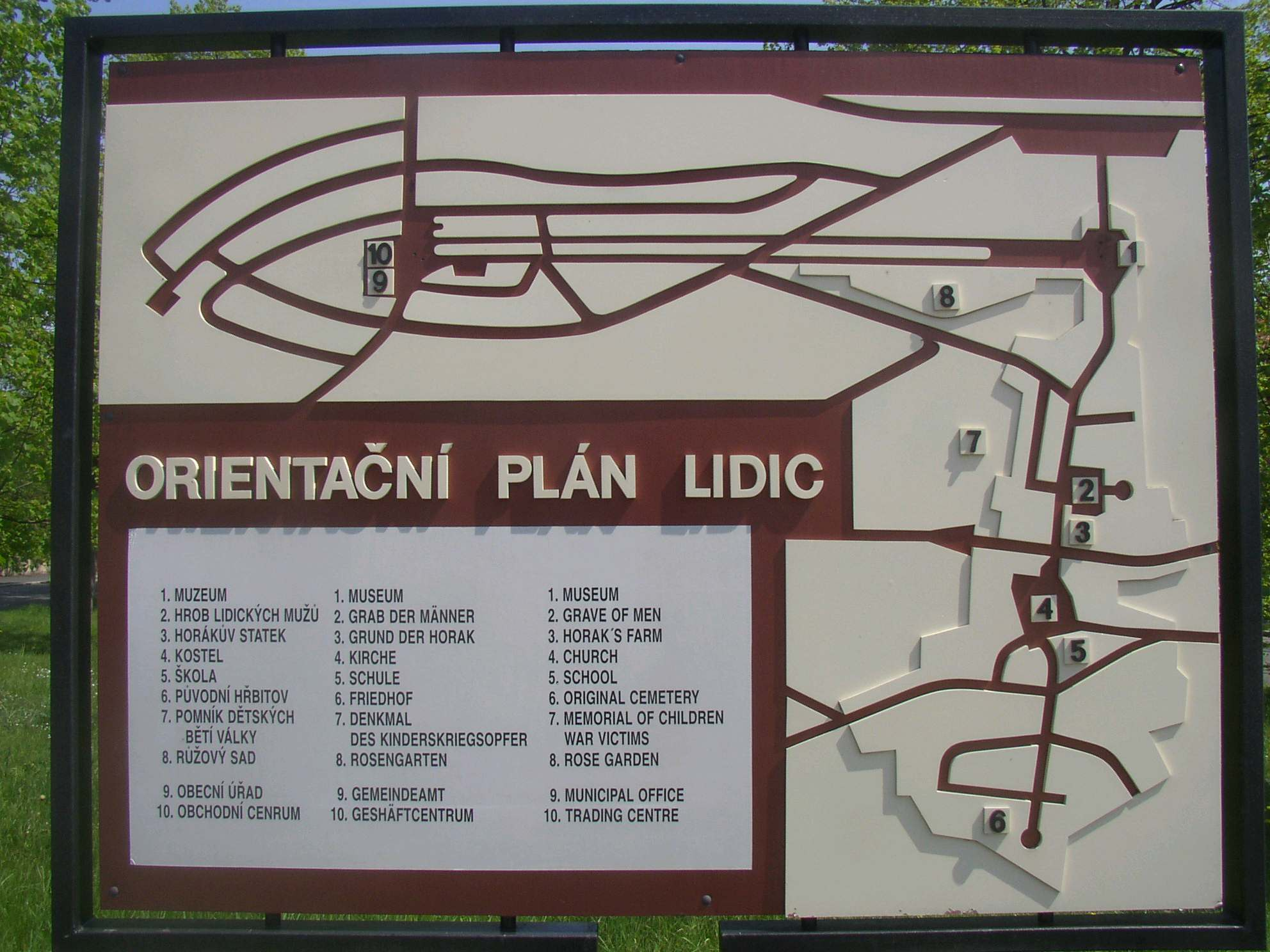 Map of Lidice. In upper left part is the new village, the straight horizontal line is an alley, leading towards the museum (upper right). In the lower right part is the site of the old destroyed village.